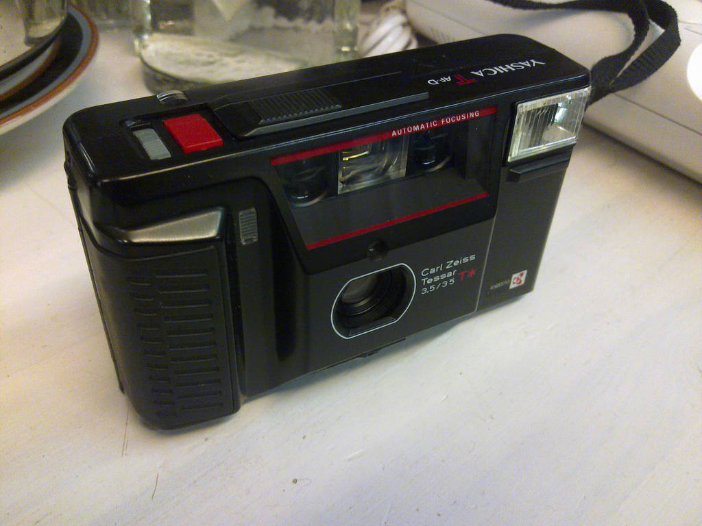 Yashica T AF-D from Kyocera age, also sold as Kyocera TAF.